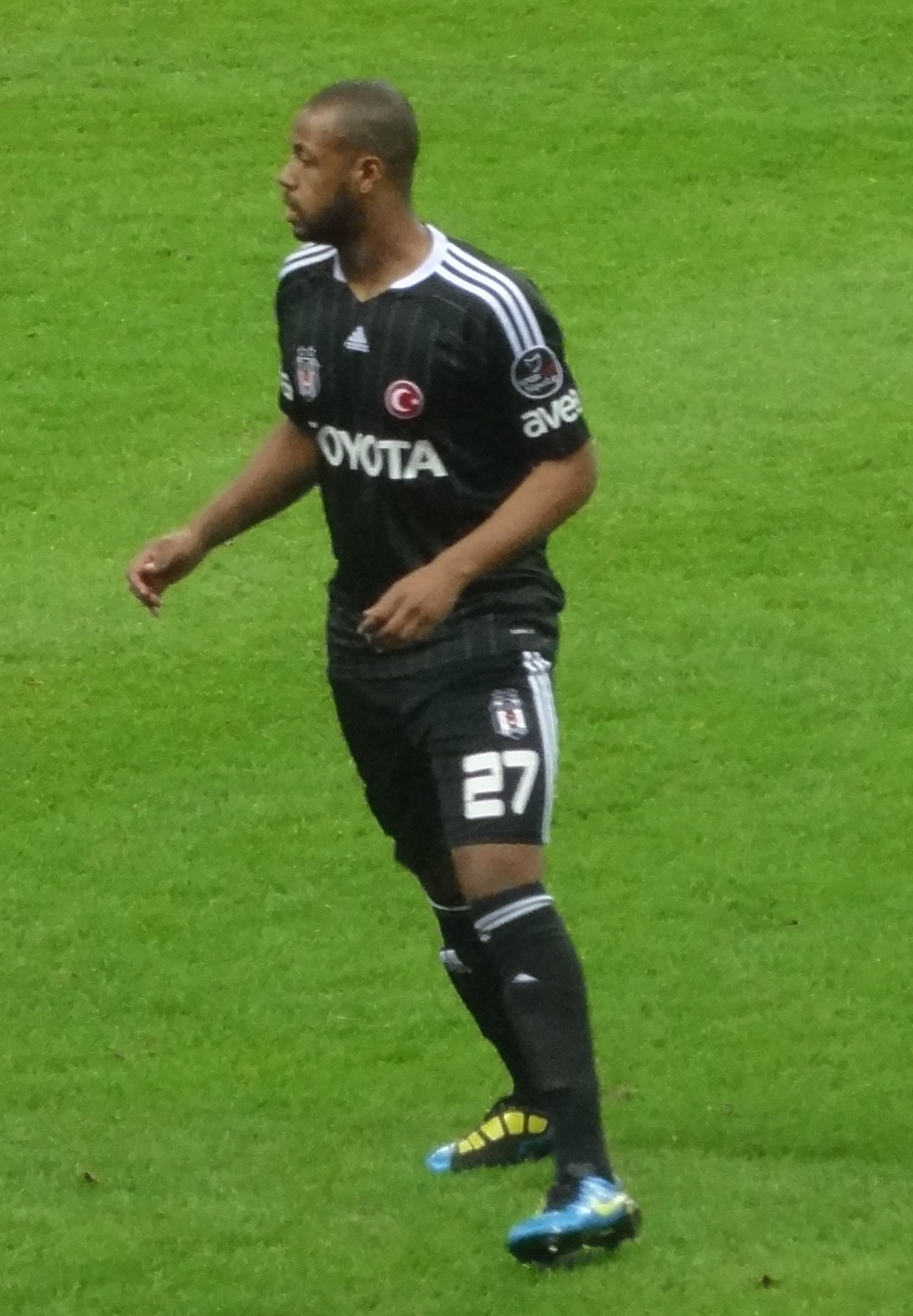 Sidnei playing for Beşiktaş